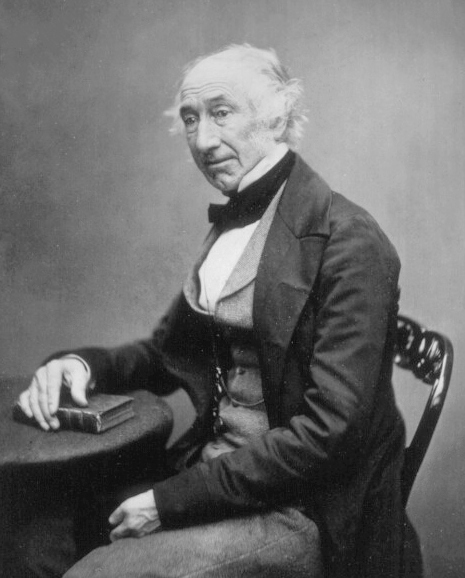 Sir William Jackson Hooker